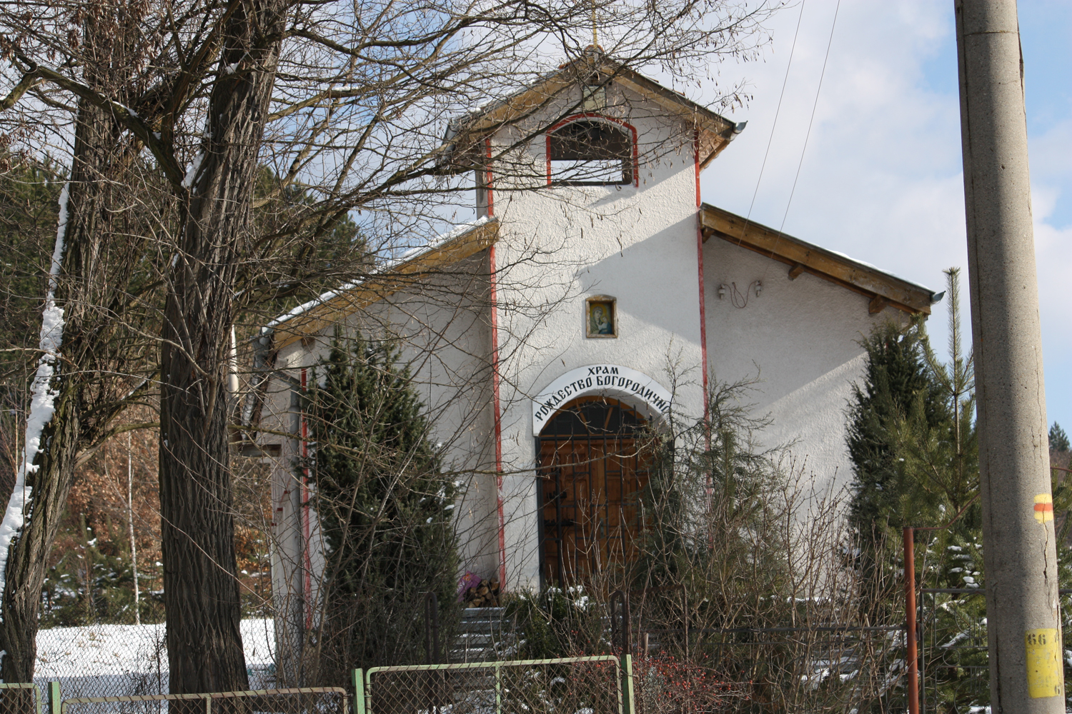 Mirovo church Nativity of the Theotokos